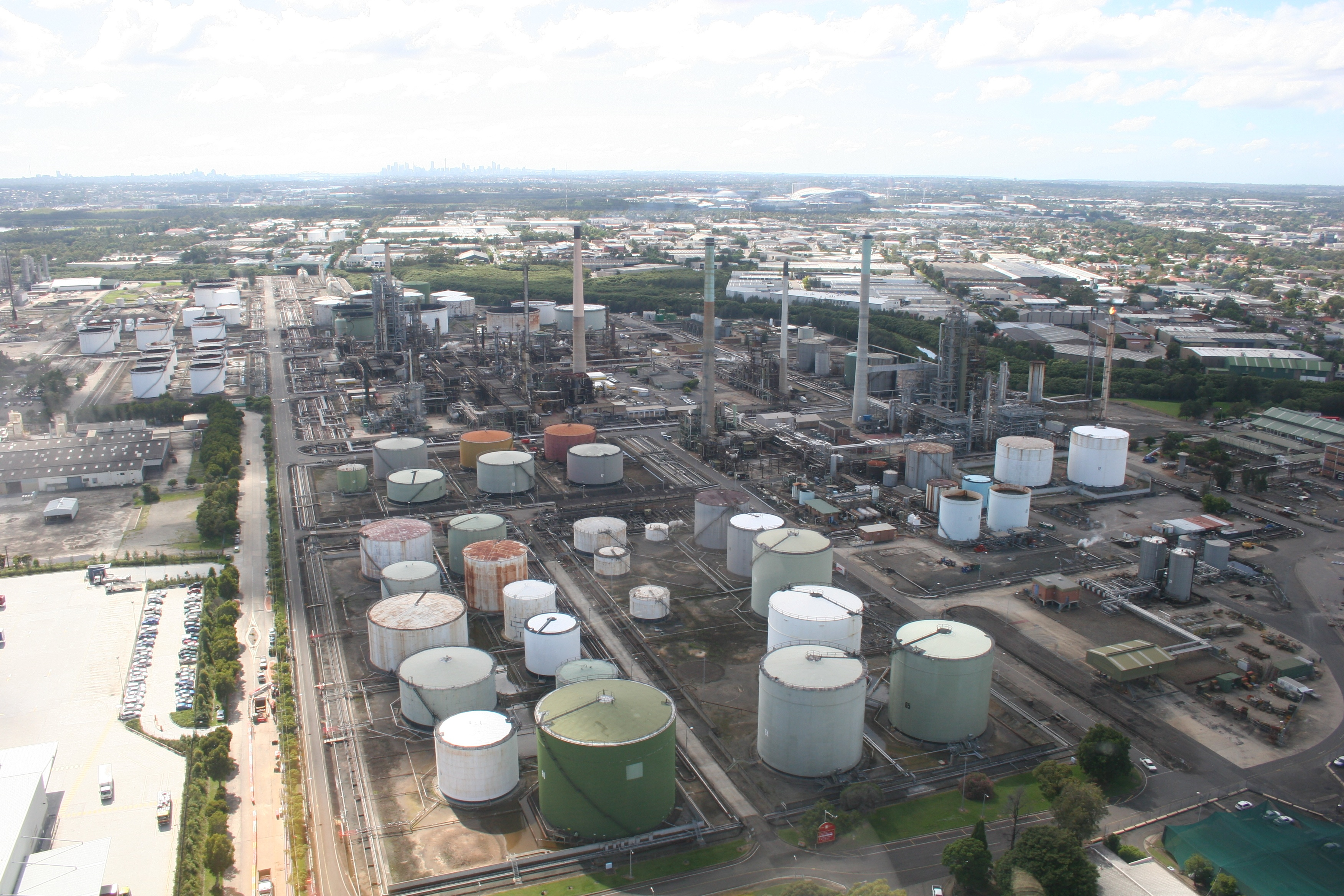 Aerial photograph of Rosehill.